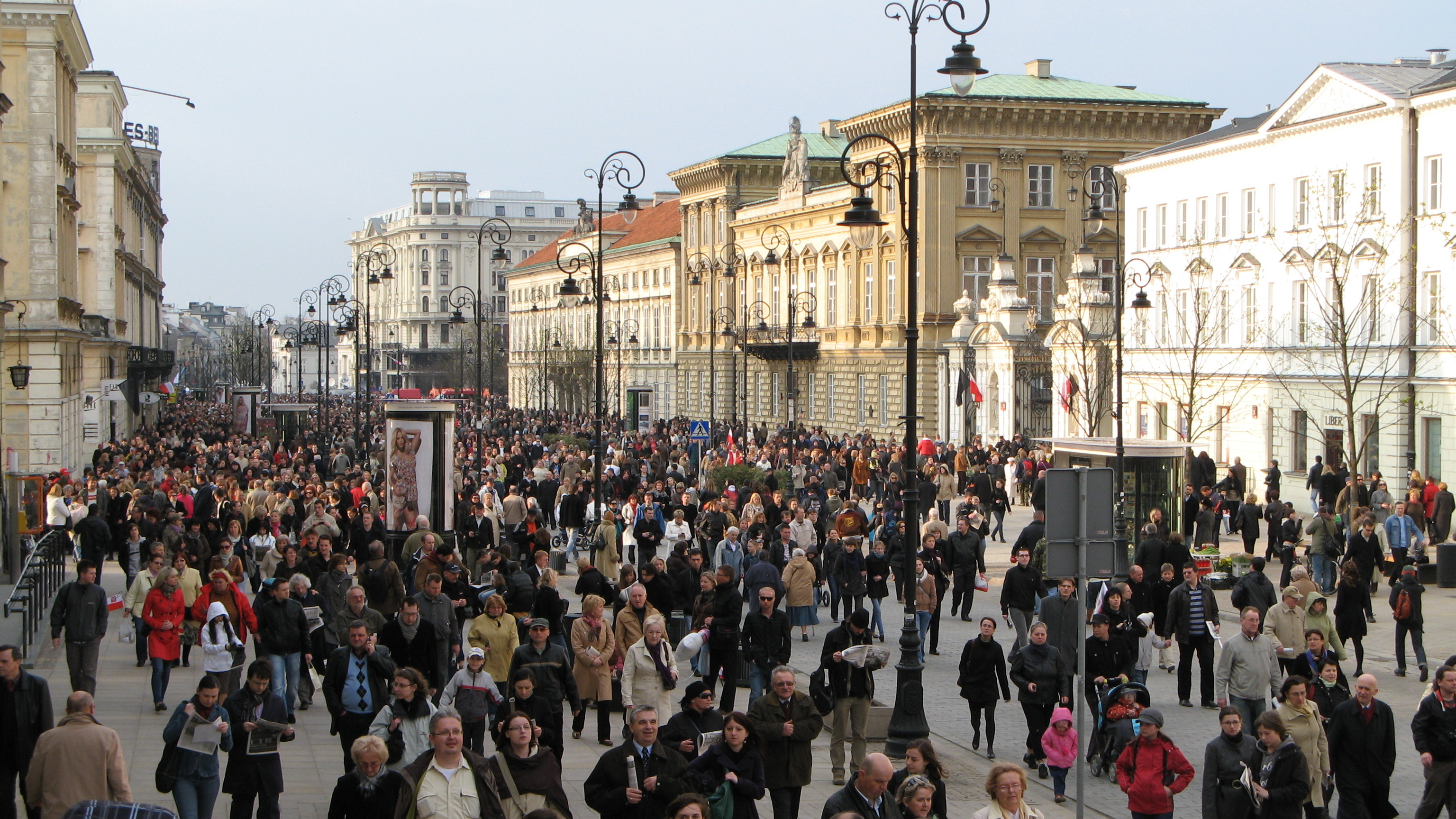 Warsaw, the day after president's plane crash